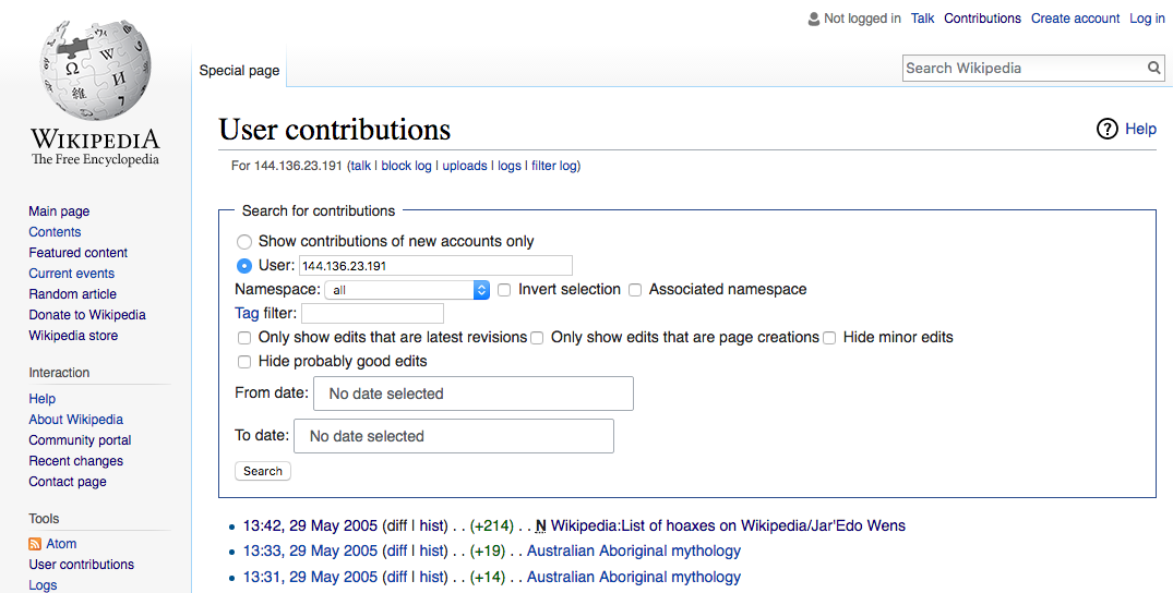 The contributions of the anonymous IP user who added the Jar'Edo Wens hoax article on Wikipedia.